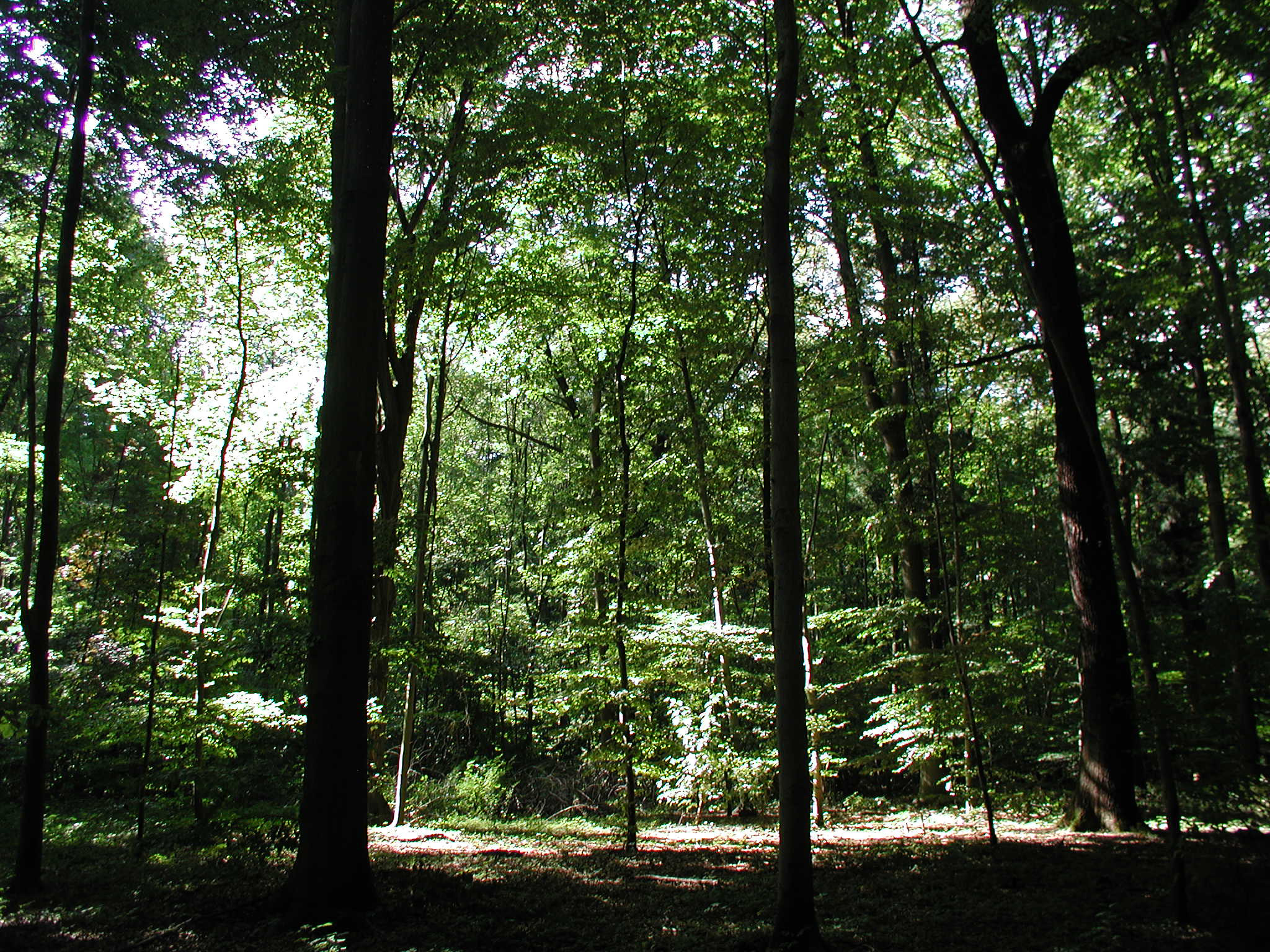 Cologne, forest "Gremberger Wäldchen"